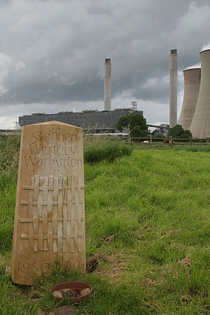 Modern gravestone in West Burton Churchyard.